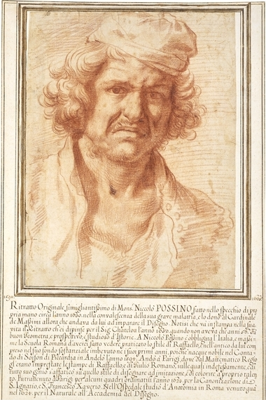 Selfportrait in red chalk from 1630 while artist was recovering from serious illness. Gift to patron Cardinal Massimi, now in the British Museum.